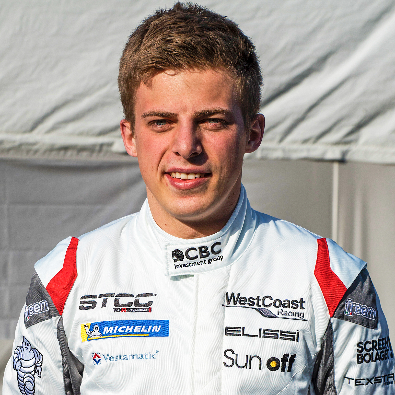 Picture of Andreas Bäckman in 2018